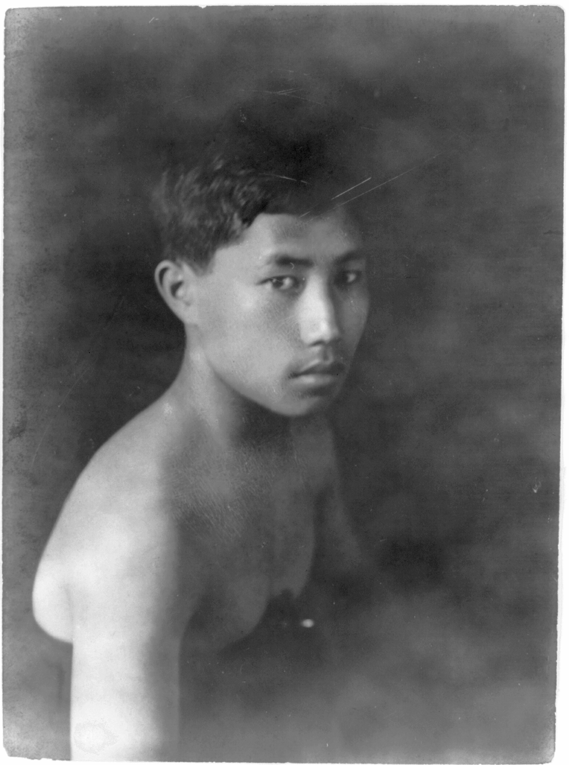 "Portrait of "Chinese-Hawaiian" boy, titled "'The Fisher Boy" (front view) 1909" from the "Caroline Haskins Gurrey Portraits of Hawaiians 1909".